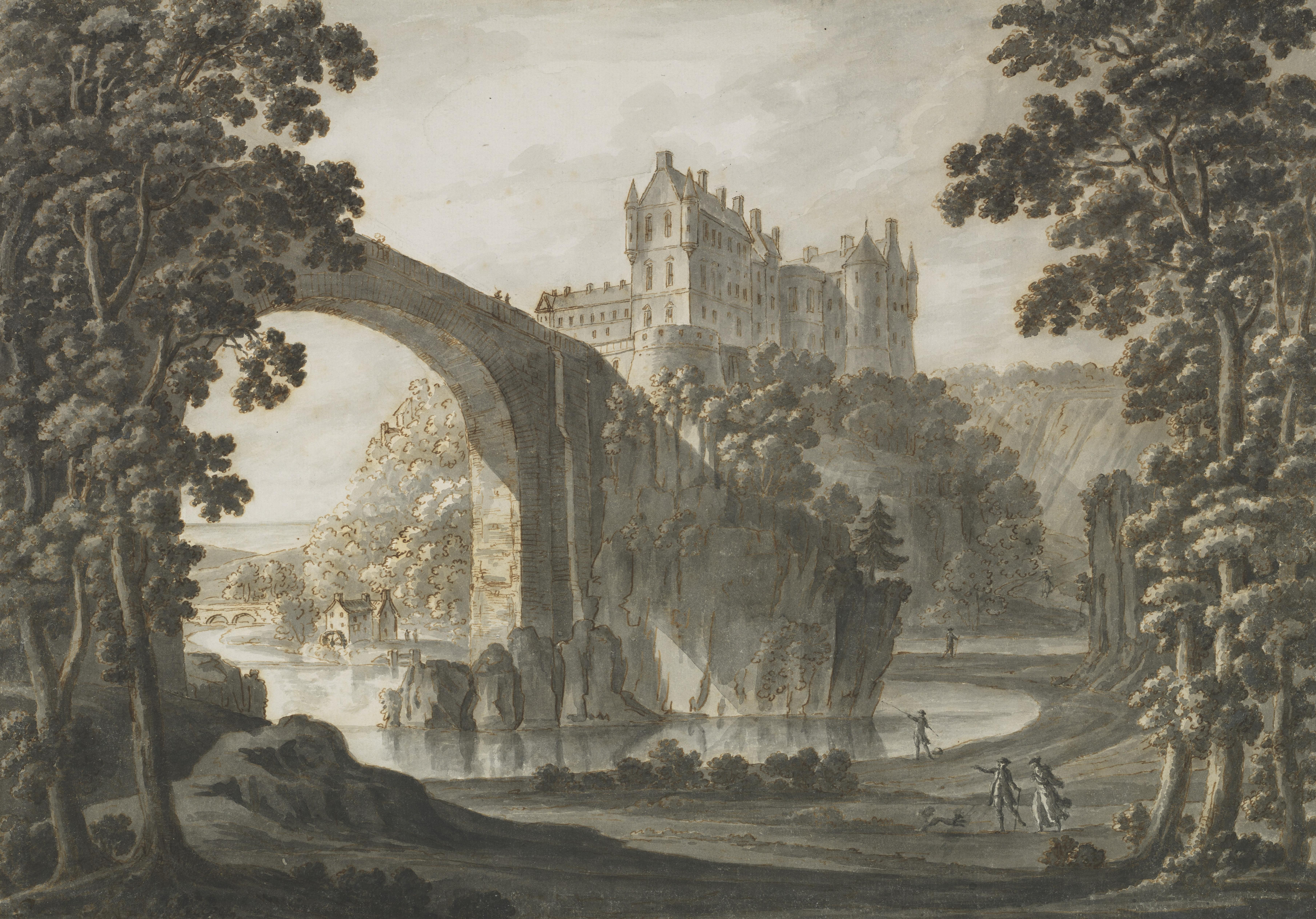 "Cullen Castle, Banffshire", Pen and brown ink and grey wash over black chalk on paper, 35.60 x 51.00 cm. (Now in Moray)